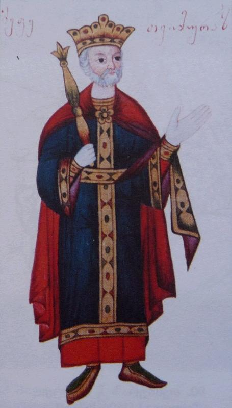 Teimuraz I